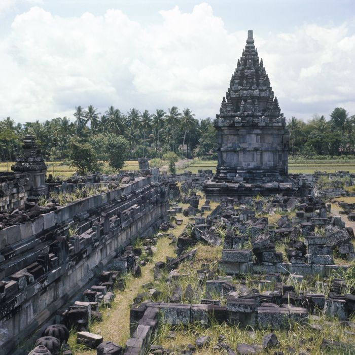 The Candi Lara Jonggrang or Prambanan temple complex